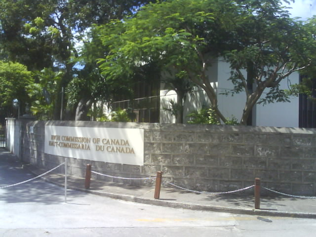 Building for the Canadian High Commission (of Barbados & the Eastern Caribbean). Located at Bishop Court Hill, Bridgetown, Barbados.